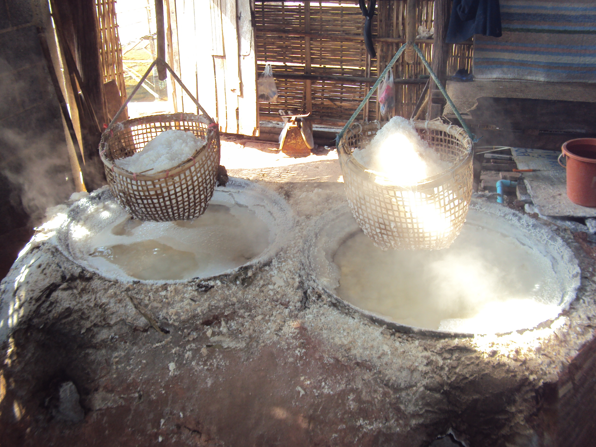 Salt boiling. Ancient method of boiling brine into pure salt in Bo Kluea District Nan Province, northern Thailand.